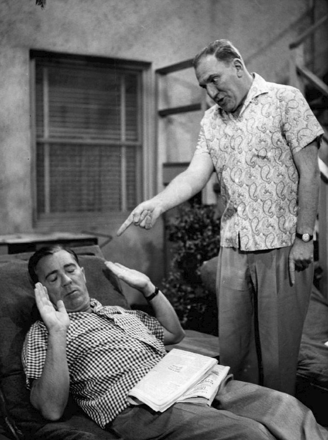 Photo of Tom D'Andrea as Jim Gillis, Riley's friend and neighbor, and William Bendix as Chester Riley from the television program The Life of Riley. In this scene, Riley tries making his point in a disagreement with Jim Gillis, who will have none of what his friend's trying to tell him.